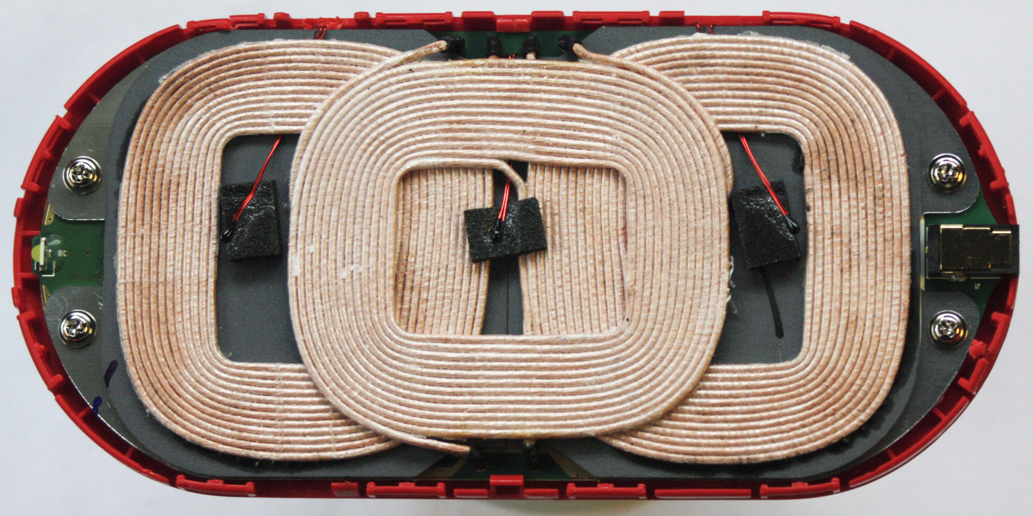 Nokia DT-900 Qi charger rated 12 V, 750 mA DC input power, with the top cover removed. The longest dimension is 116.6 mm.